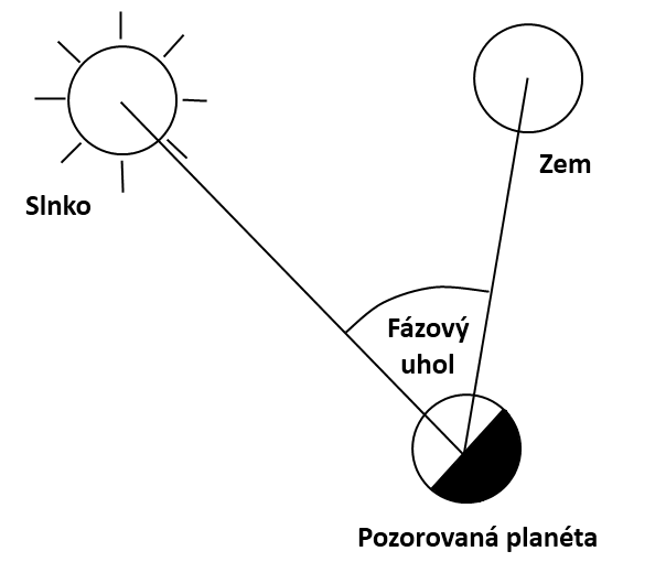 a picture showing what is phase angle in astronomy